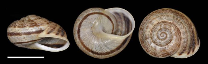 Composition of the 3 main views of the snail A. campanyonii campanyonii. Locality: Cabrera archipelago (Balearic Islands, Spain).